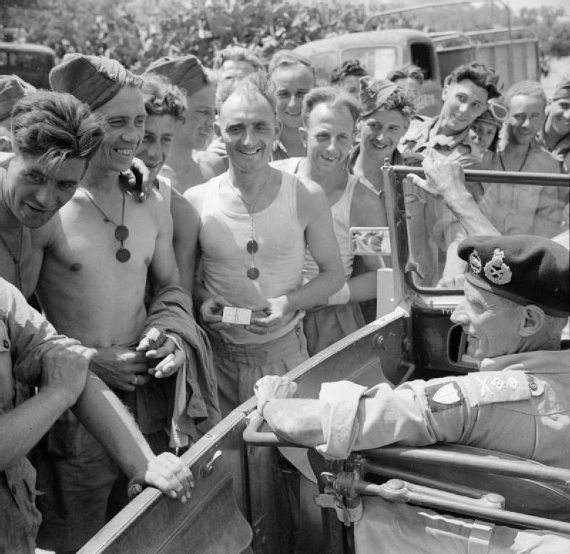 The British Army in Sicily 1943 General Montgomery stops his car to talk to Royal Engineers working on a road near Catania, 2 August 1943.